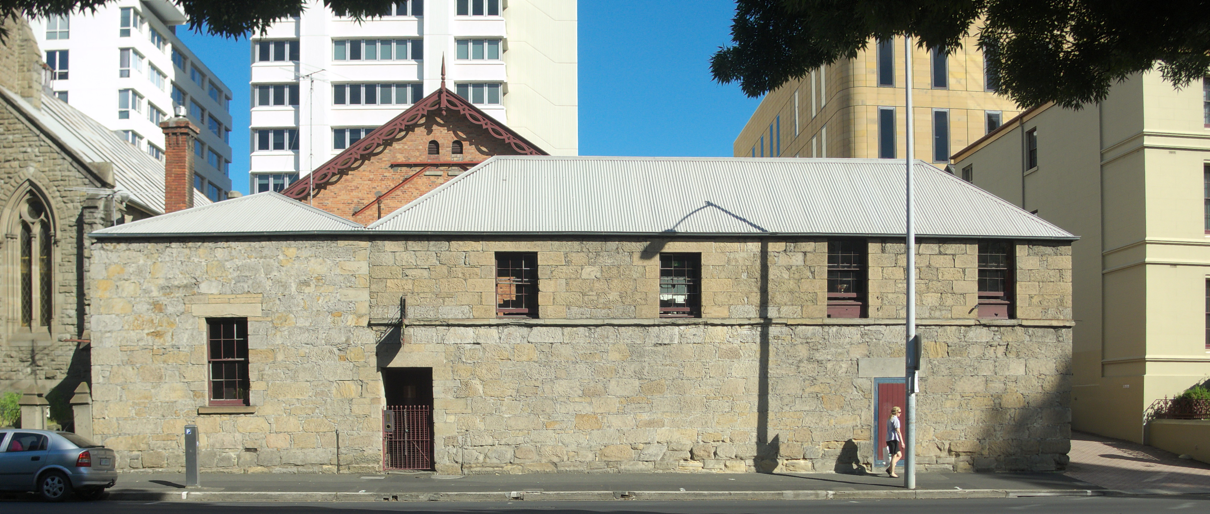 Royal Tennis Court (Hobart Real Tennis Club) at 45 Davey Street, Hobart, constructed in 1875.[1]